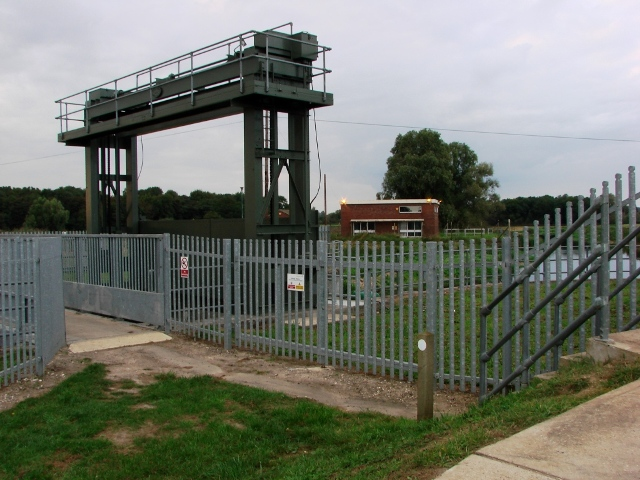 Wissey Sluice and Pumping Station Taken from the other main sluice.